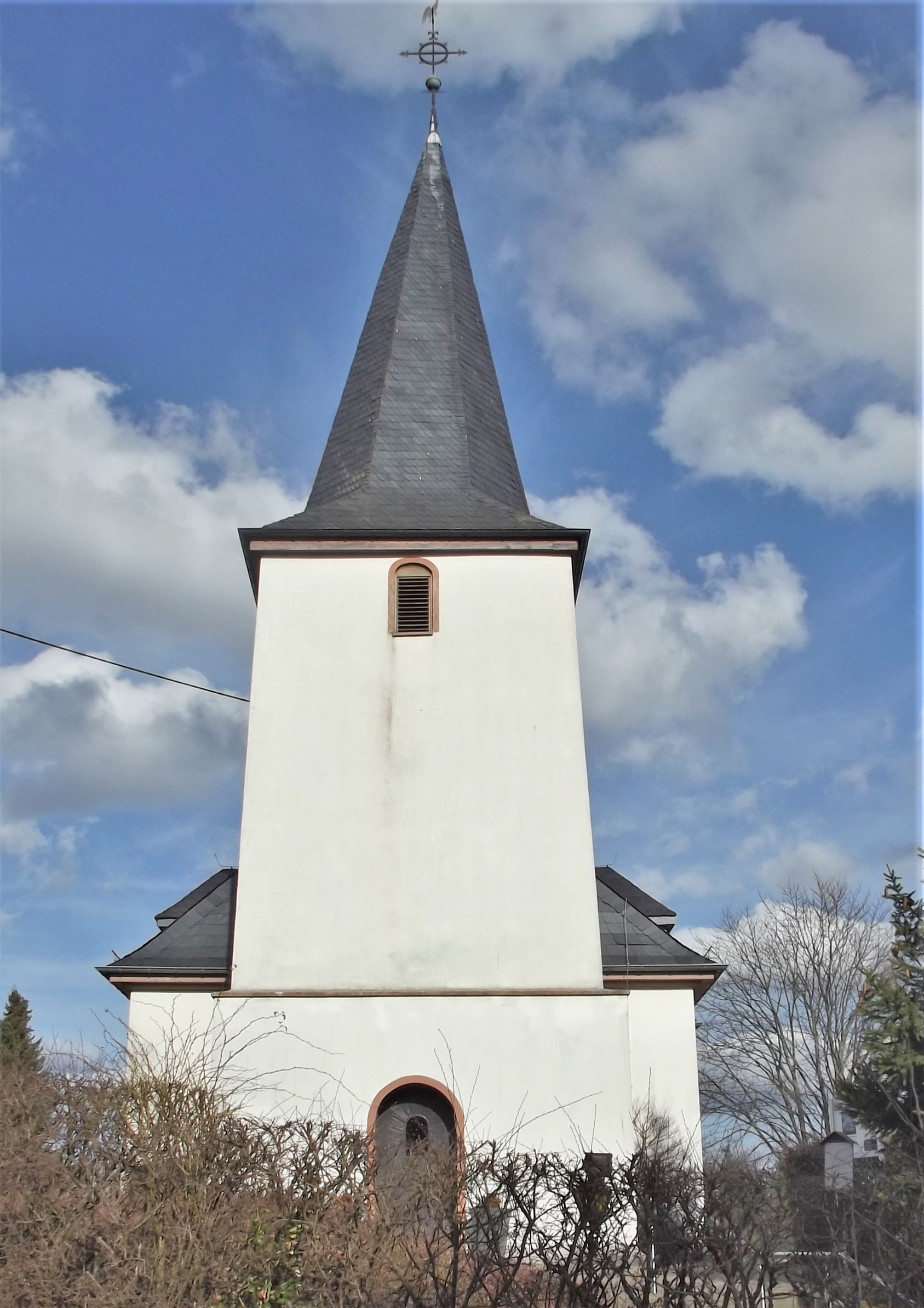 Exterior of the protestant church in Bosen, Saarland